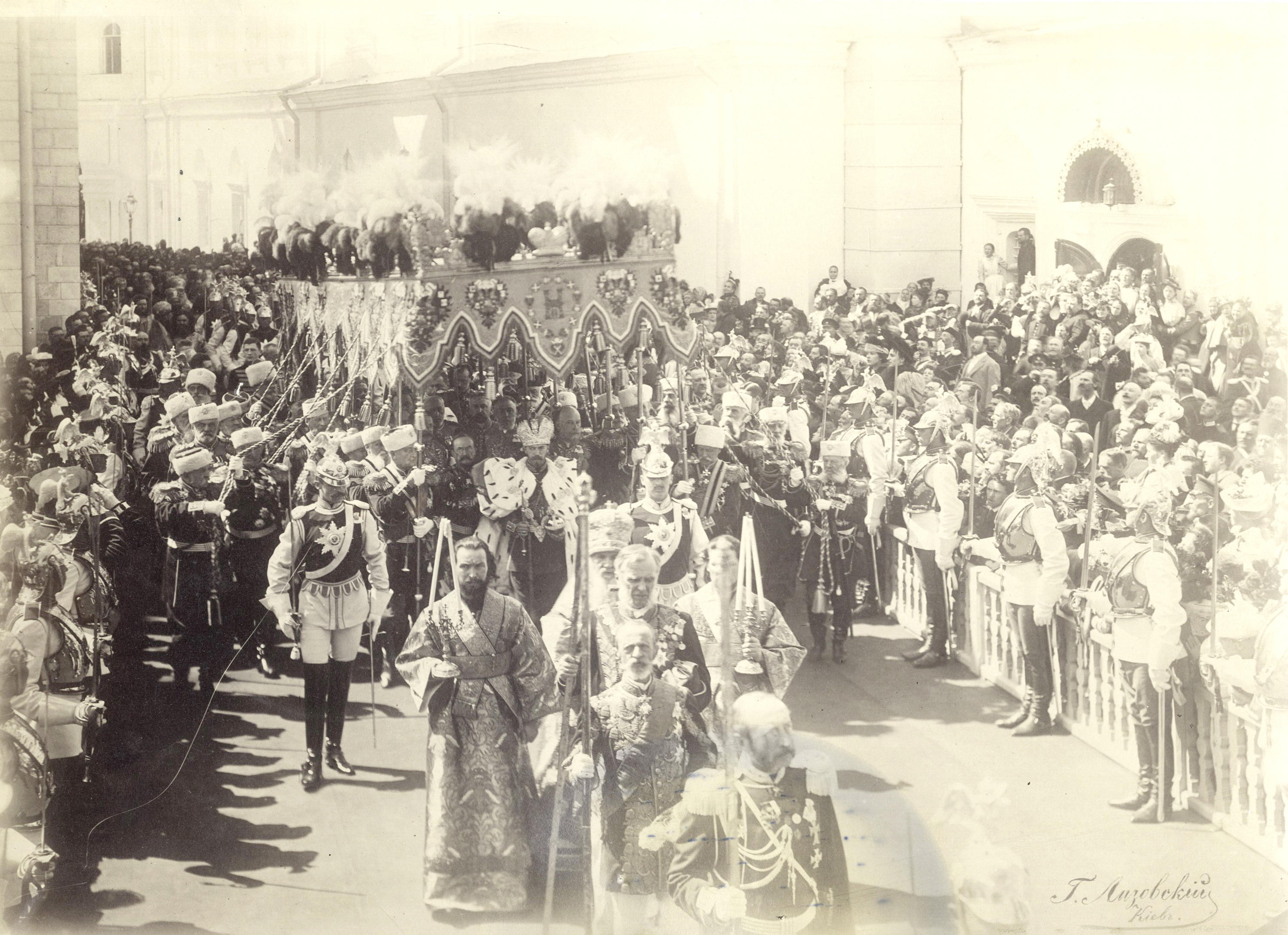 Photograph of the Coronation Procession of Emperor Nicholas II. Two officers of the Chevalier Guards march in front of the Tsar. One is the celebrated Finnish patriot Gustaf Mannerheim (on his right), the other is Wladimir Romanovitch von Knorring.